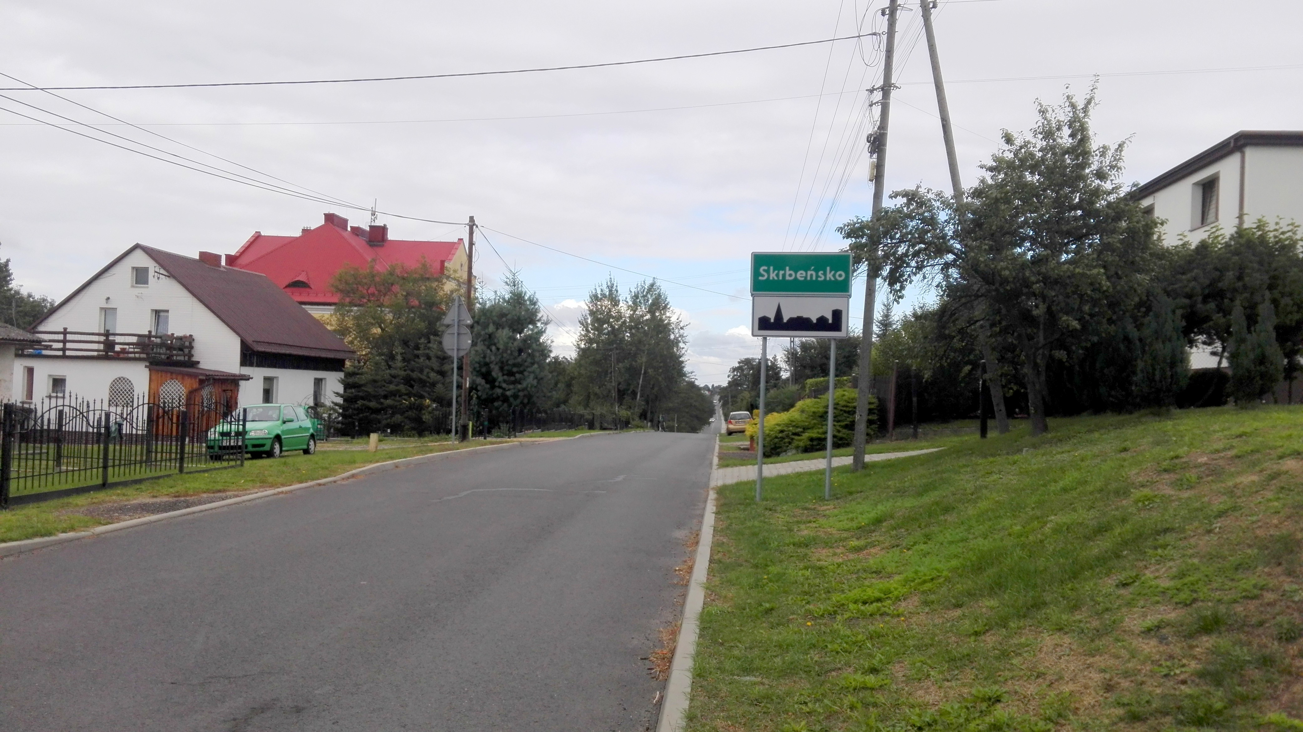 Piotrowicka Street in Skrbeńsko